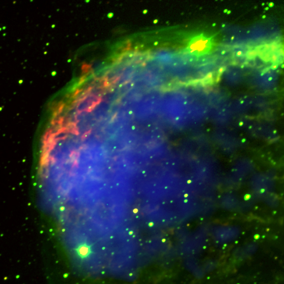 Massive stars lead short, spectacular lives. This composite X-ray (blue)/optical (red and green) image reveals dramatic details of a portion of the Crescent Nebula, a giant gaseous shell created by powerful winds blowing from the massive star HD 192163 (a.k.a. WR 136, the star is out of the field of view to the lower right). After only 4.5 million years (one-thousandth the age of the Sun), HD 192163 began its headlong rush toward a supernova catastrophe. First it expanded enormously to become a red giant and ejected its outer layers at about 20,000 miles per hour. Two hundred thousand years later - a blink of the eye in the life of a normal star - the intense radiation from the exposed hot, inner layer of the star began pushing gas away at speeds in excess of 3 million miles per hour! When this high speed "stellar wind" rammed into the slower red giant wind, a dense shell was formed. In the image, a portion of the shell is shown in red. The force of the collision created two shock waves: one that moved outward from the dense shell to create the green filamentary structure, and one that moved inward to produce a bubble of million degree Celsius X-ray emitting gas (blue). The brightest X-ray emission is near the densest part of the compressed shell of gas, indicating that the hot gas is evaporating matter from the shell. The massive star HD 192183 that has produced the nebula appears as the bright dot at the center of the full-field image. HD 192163 will likely explode as a supernova in about a hundred thousand years. This image enables astronomers to determine the mass, energy, and composition of the gaseous shell around this pre-supernova star. An understanding of such environments provides important data for interpreting observations of supernovas and their remnants.